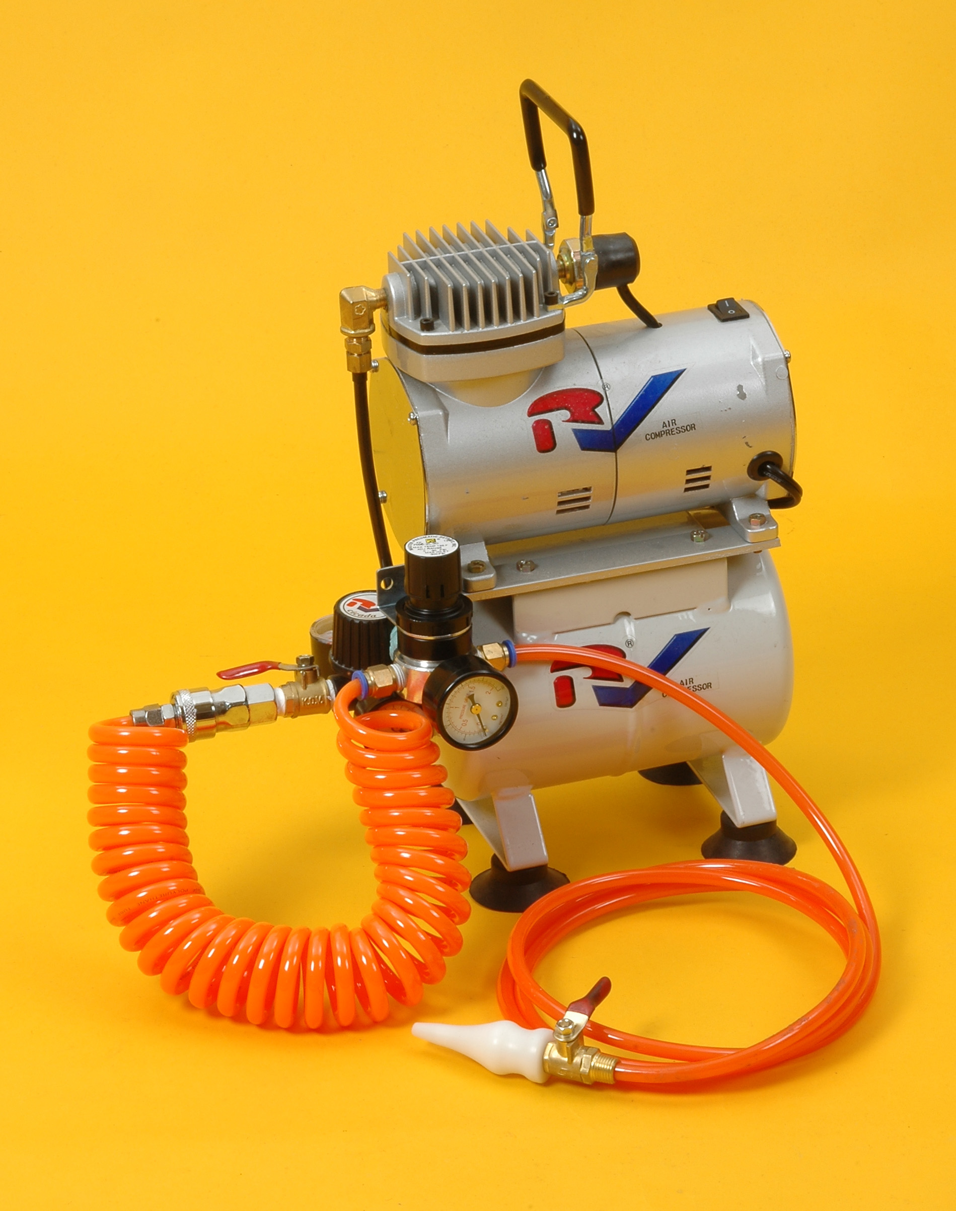 It is a mini type of air compressor